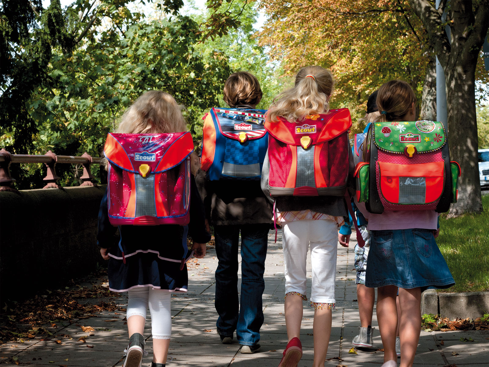 Schoolbags by Scout